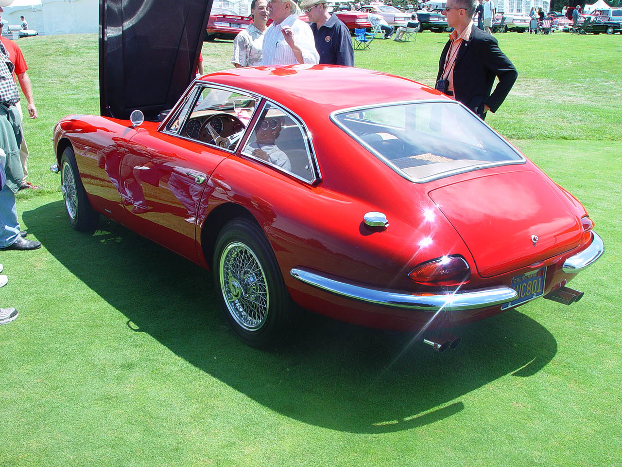 Apollo 5000 GT, rear view. Photograph taken at 2005 Concorso Italiano.